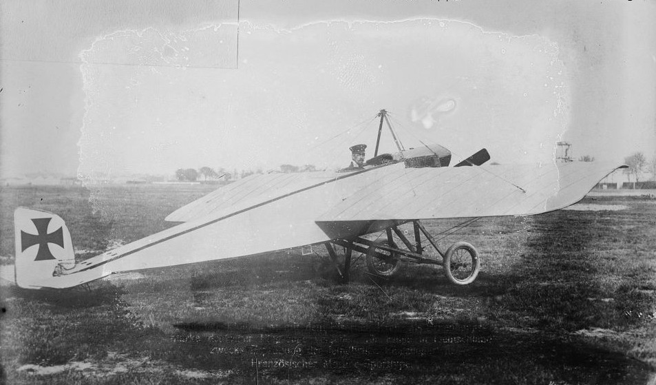 A French Morane-Saulnier G captured by German troops, circa 1915. Note that it has been tried to erase the original German description on the photo.